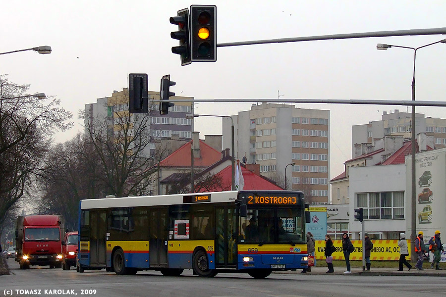 MAN NL283 bus (#659) in Płock, Poland. Built 2005, KM Płock operator.